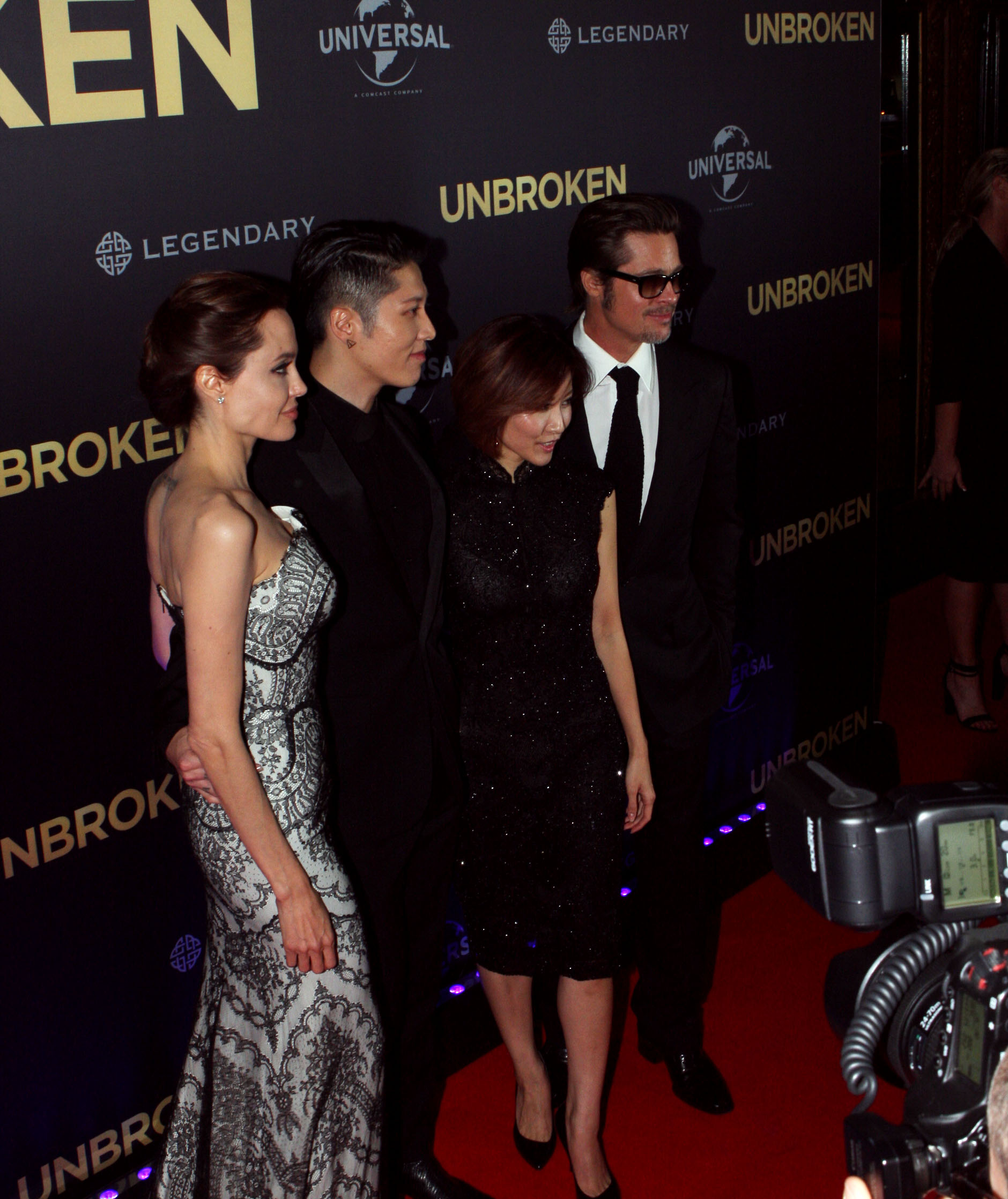 Unbroken World Premiere